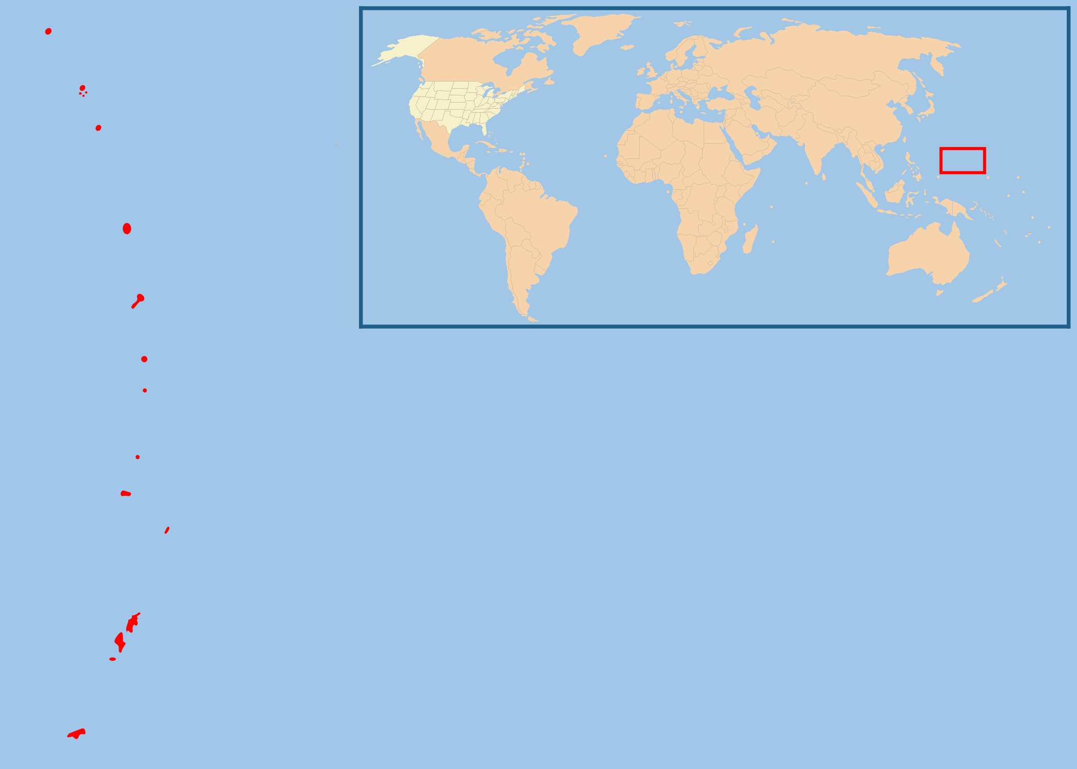 Map of USA highlight Northern Mariana Islands